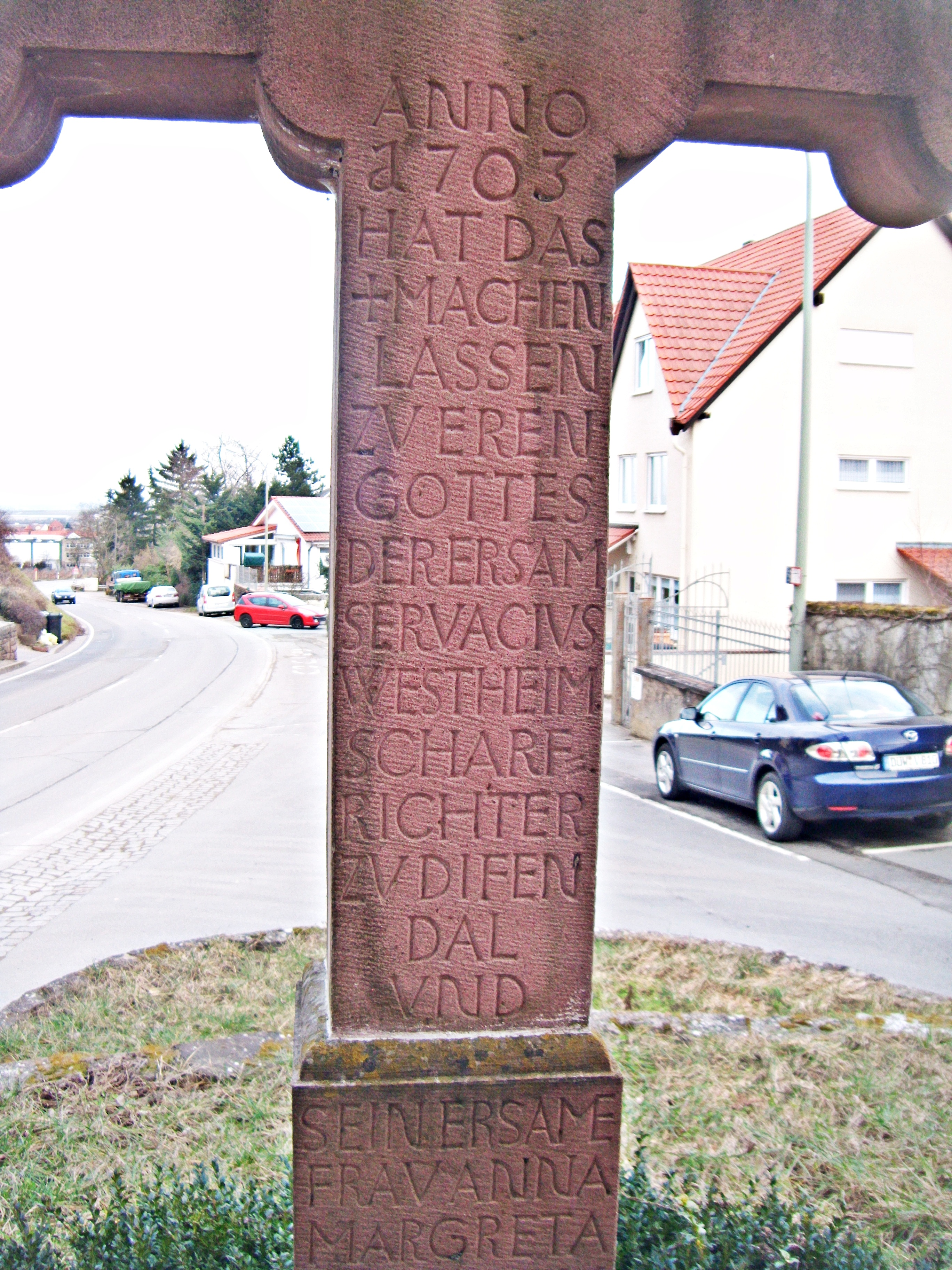 Neuleiningen, beim Friedhof, Scharfrichterkreuz (1703), Kopie, rückseitige Inschrift